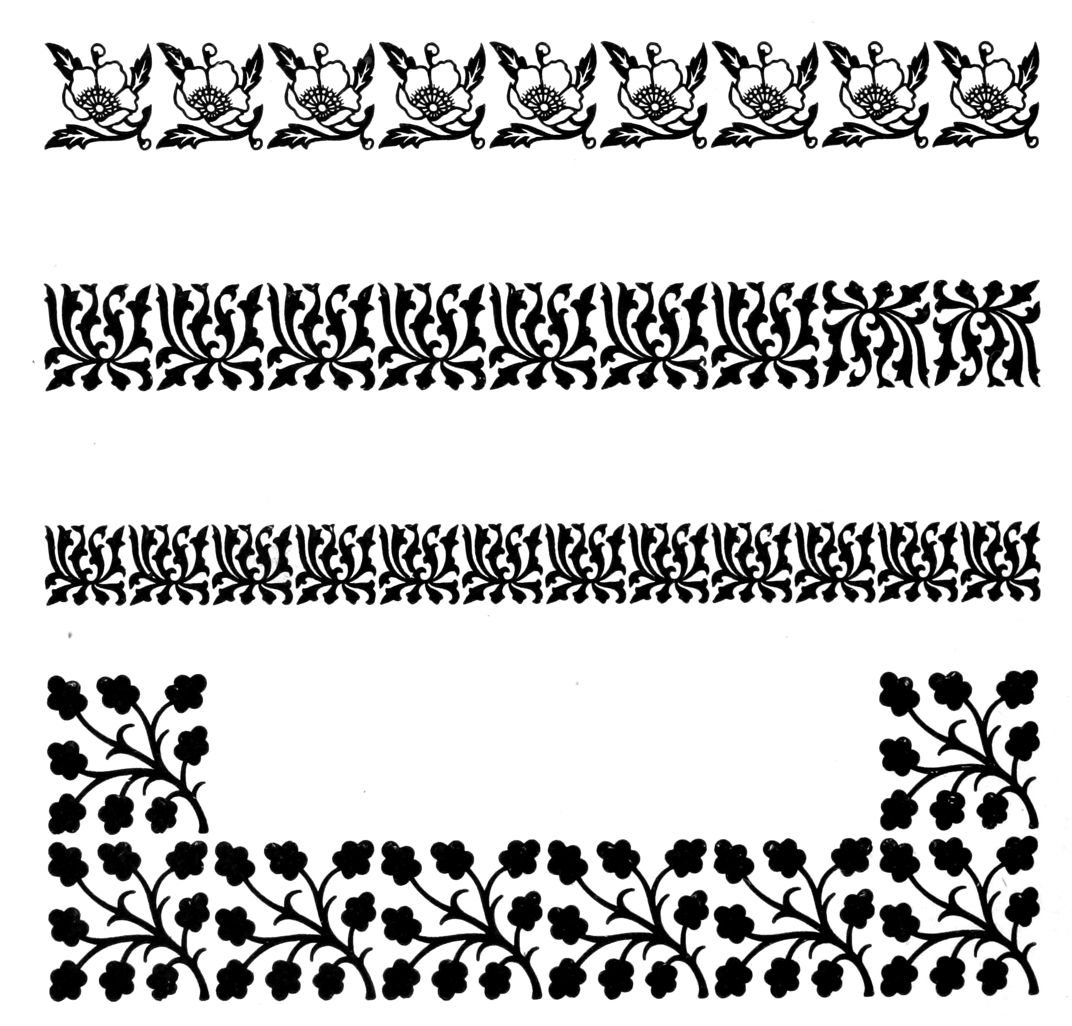 Crop of 'Specimens of printed borders.jpg', intended for pages where that image is too big. Based on an image hosted by the Internet Archive.